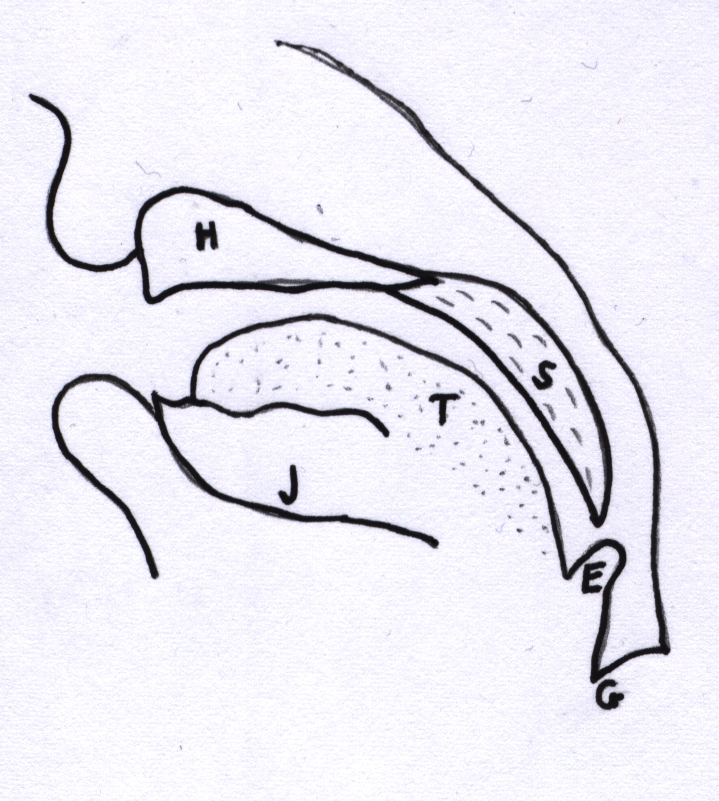 Tracing of infant vocal tract.